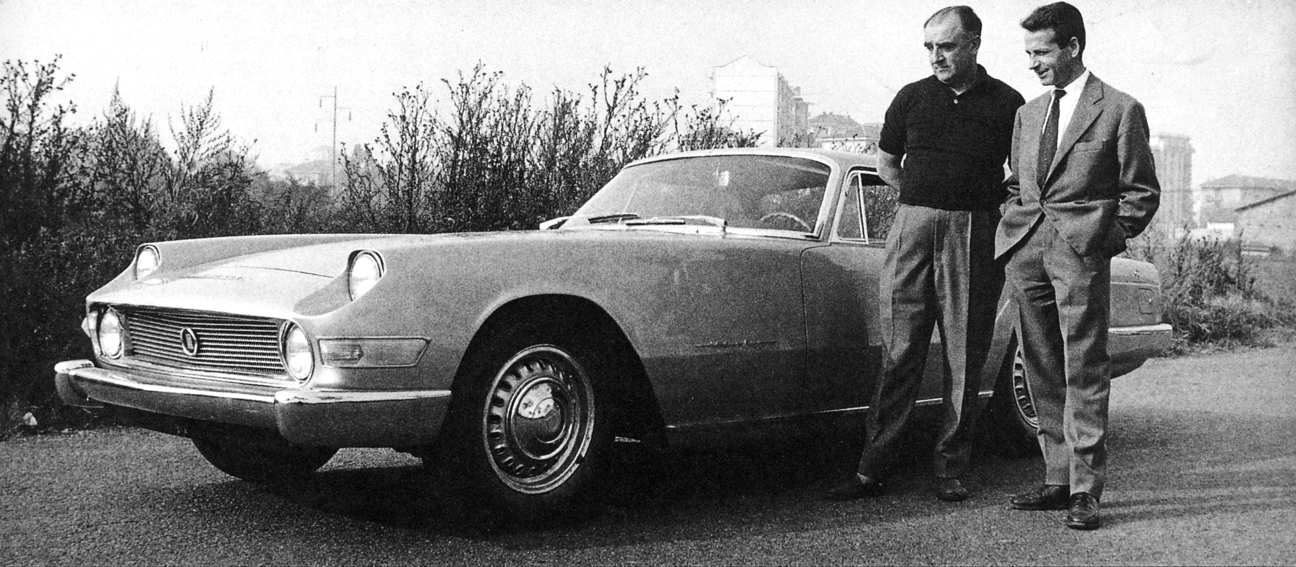 A 1960 Plymouth Silver Ray. Made by italian Enrico Nardi (1907–66, at left) and designed by Giovanni Michelotti (1921–80, at right).